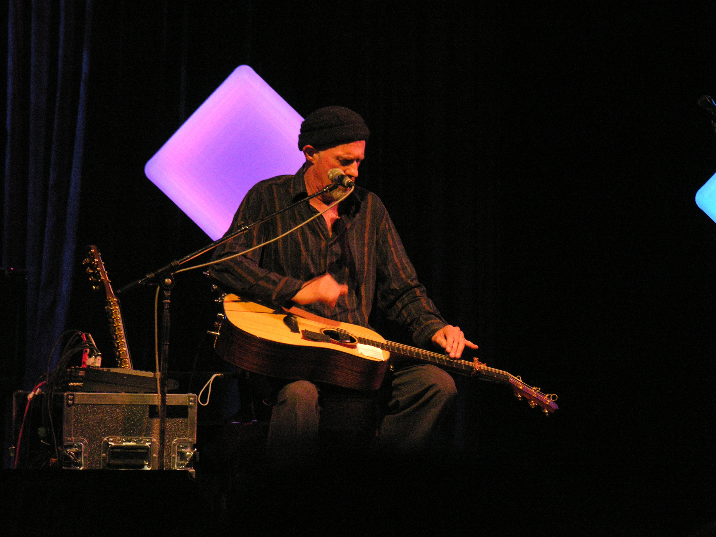 Harry Manx playing slide guitar